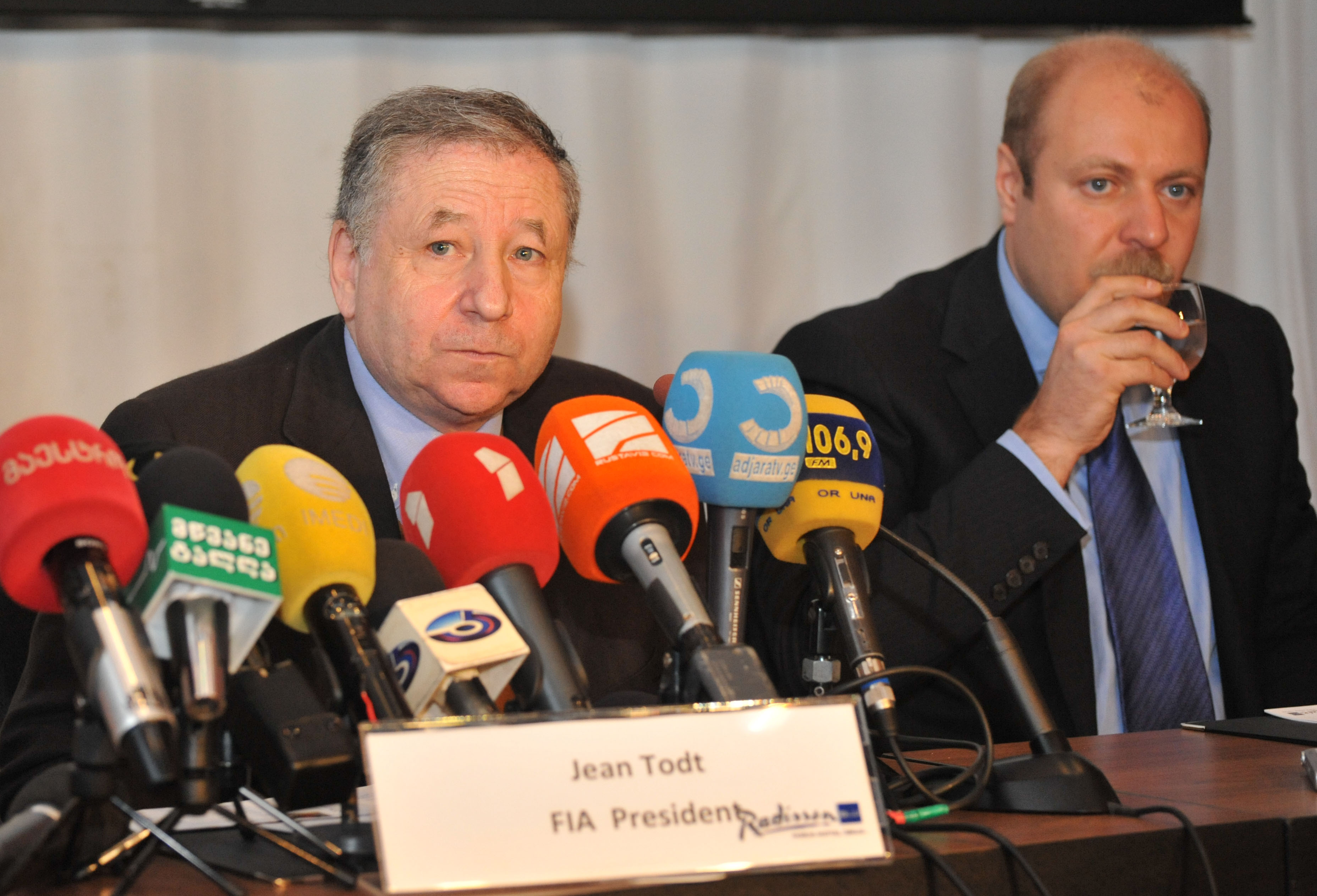 Shota Abkhazava and Jean Todt at the meeting in Tbilisi, Georgia